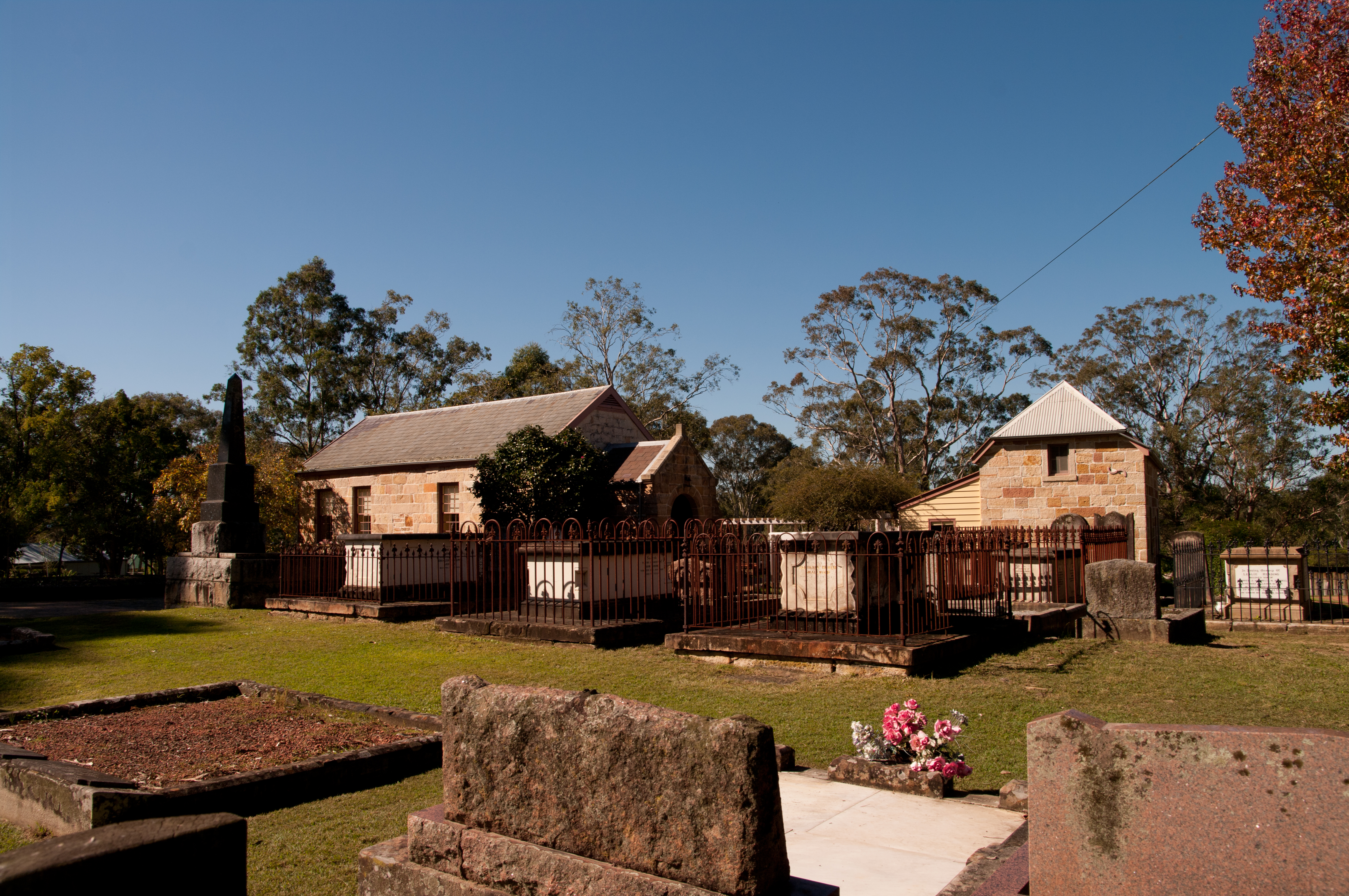 Ebenezer Church built c1809 and grounds church, school house and cemetery forground graves are the earliest graves at the site